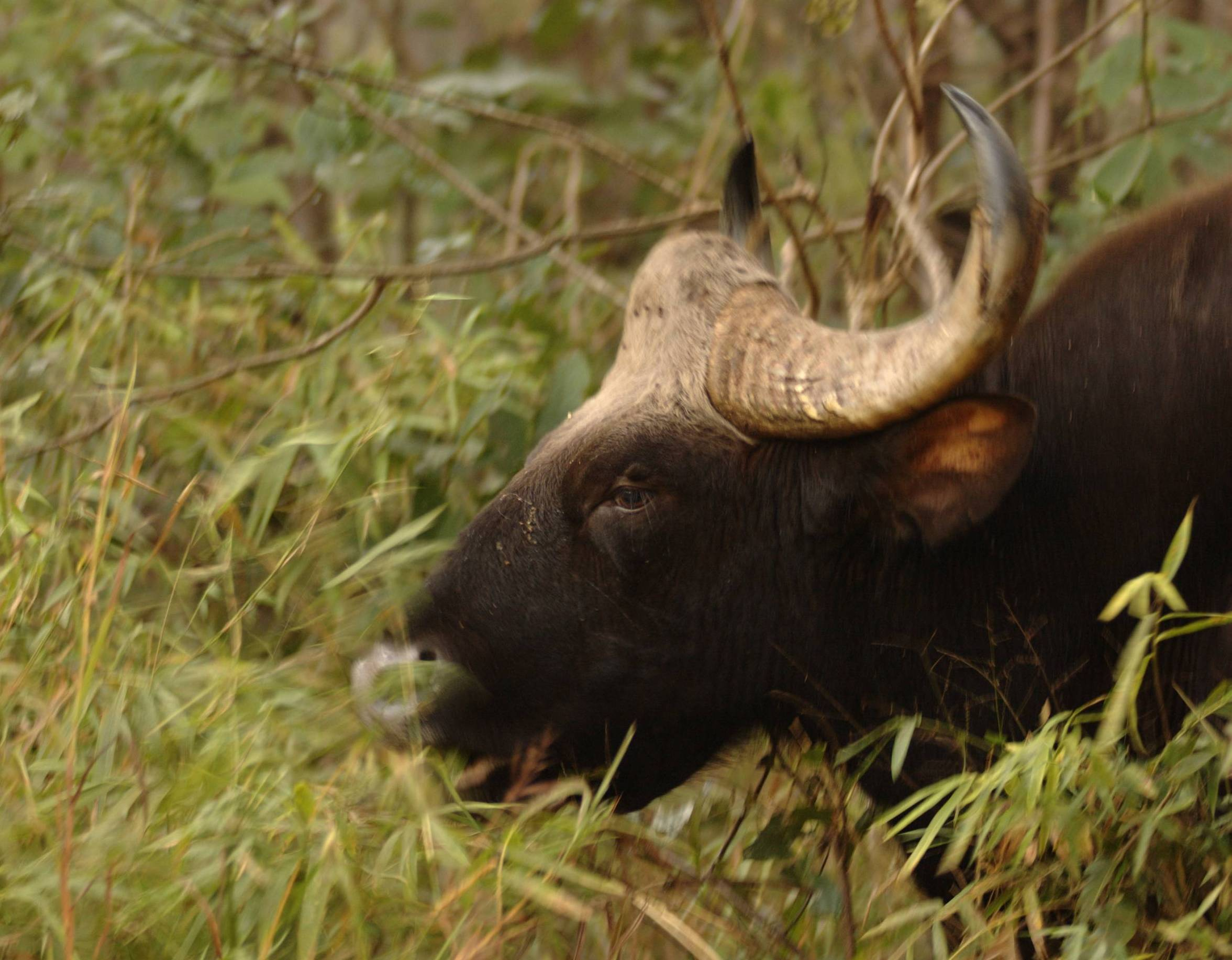 Indian gaur (Bos gaurus gaurus) at Kanha National Park, India